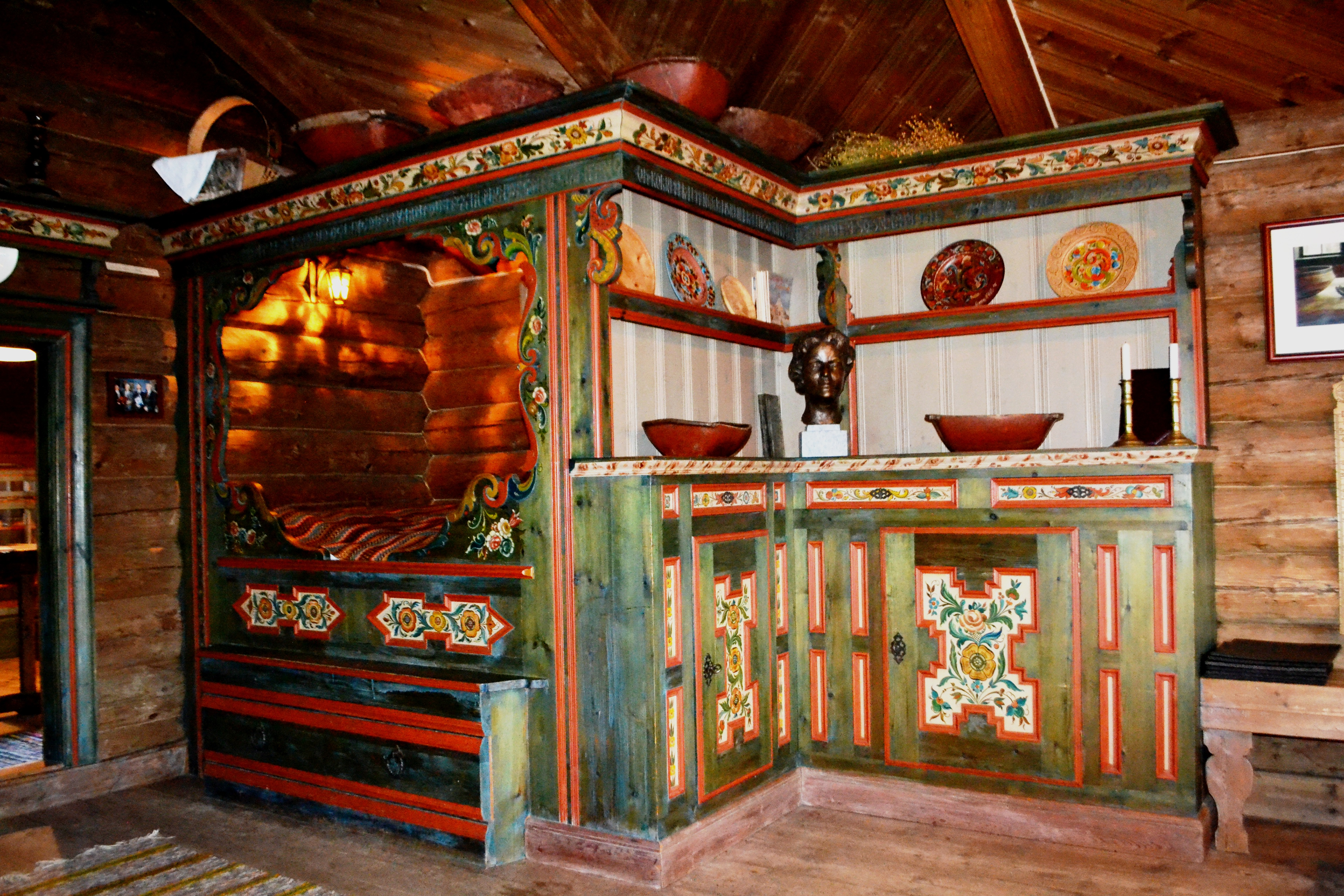 Fyrileivstugo, the interior of a living room from 1932 produced by Olav Fyrileiv, a woodcarver and rosemaler. It was transferred to the Heddal Open Air Museum in Notodden, Telemark, Norway, in 1990.